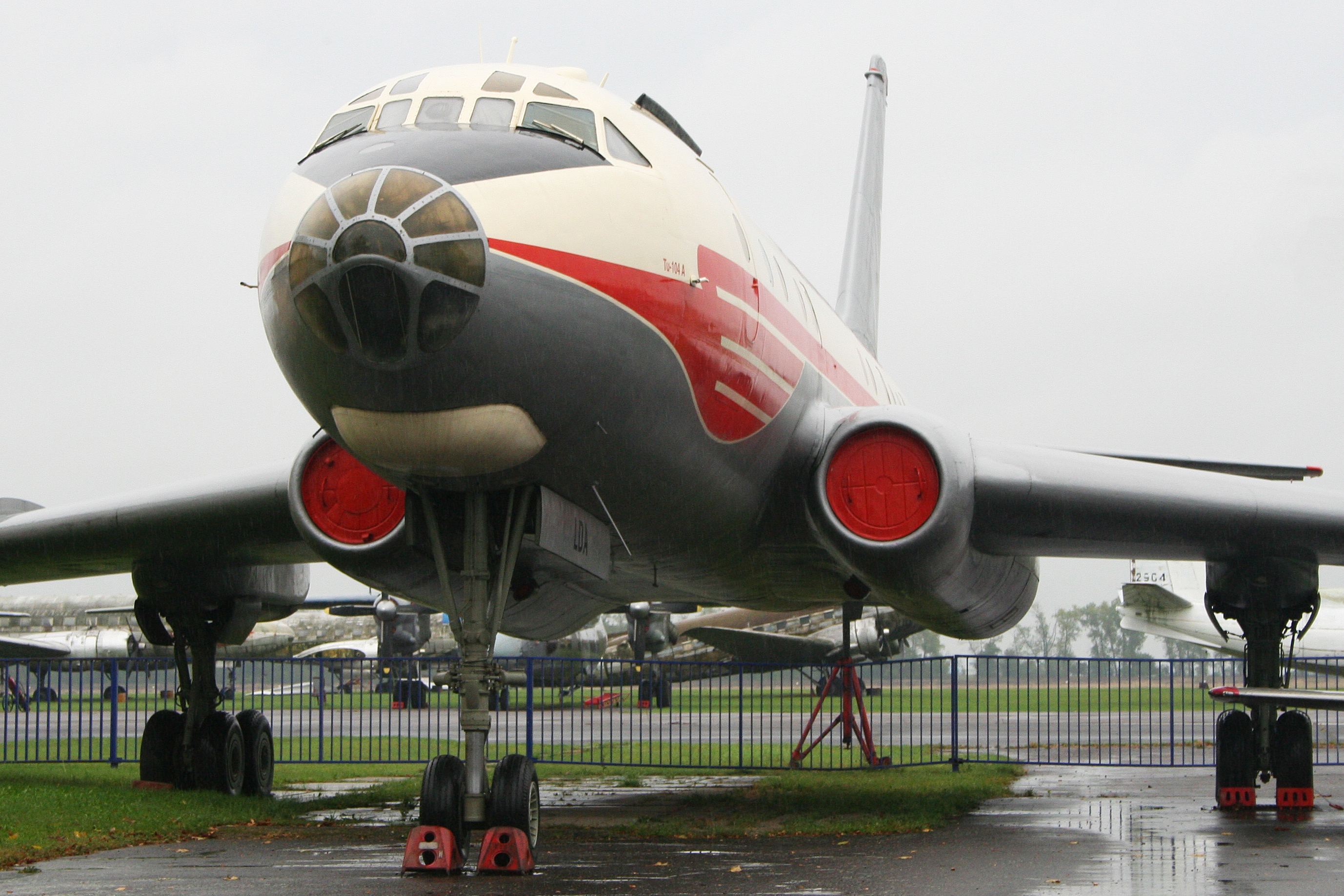 After years spend almost derelict, it's great to see this rare bird restored in classic CSA colours. And yes, it was pouring with rain when i took this shot!! msn 76600503. On display outside at the Kbely Museum, Czech Republic. 07-10-2012